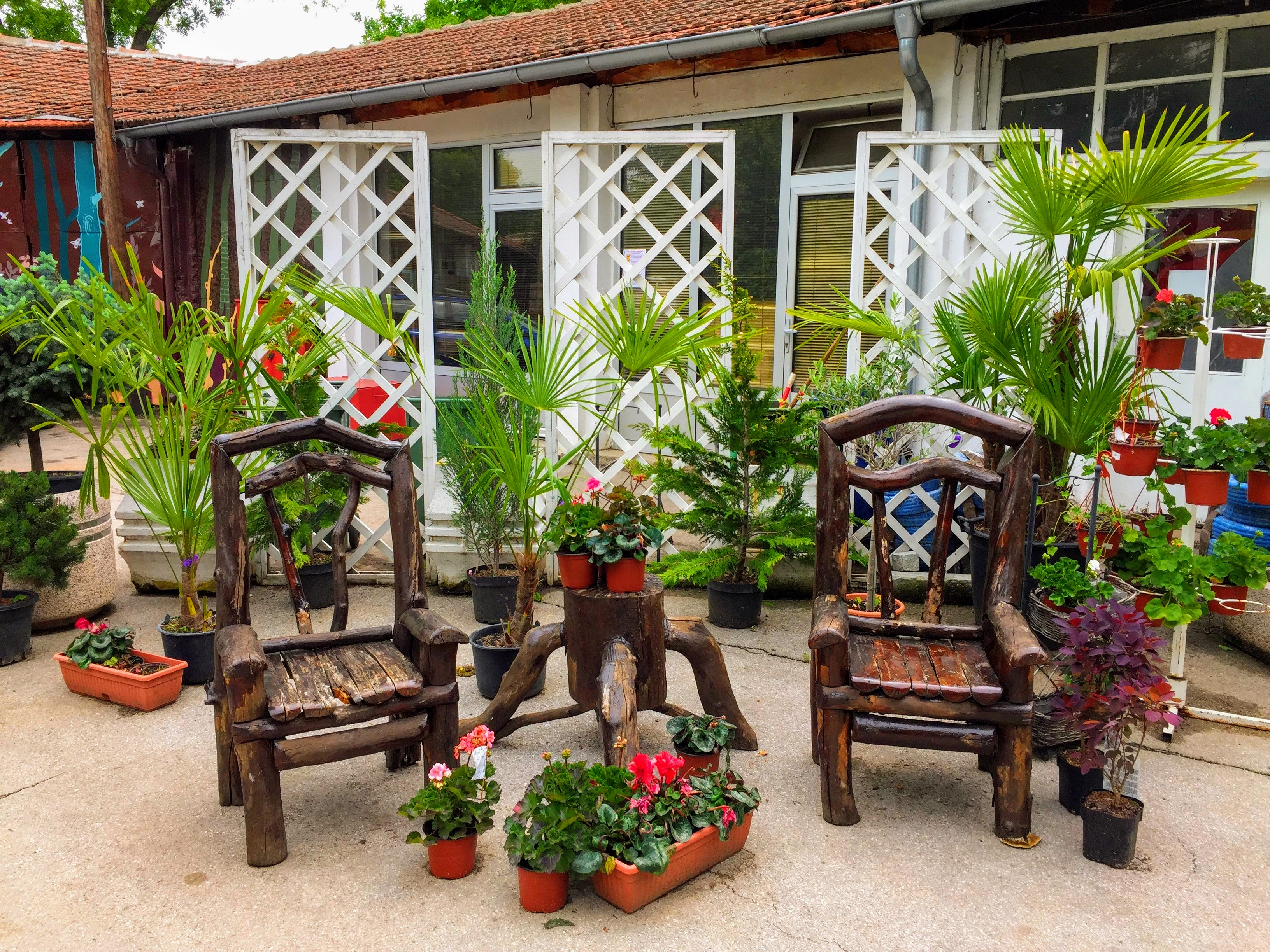 City garden Niš, 2019.